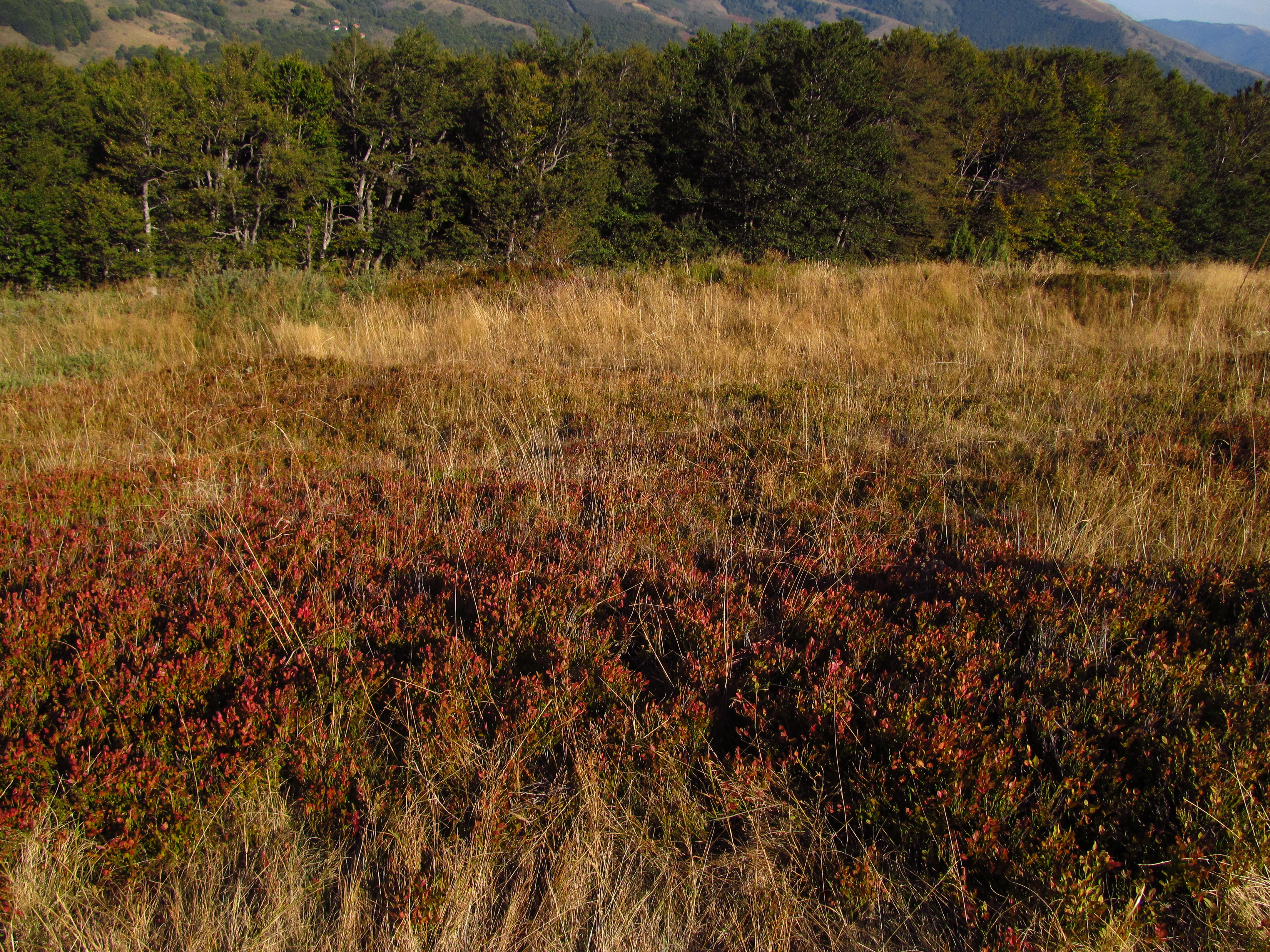 Bruckenthalia heaths habitat, EUNIS F2.26, at mountain Besna Kobila (SE Serbia). Српски (ћирилица): Вриштине са Bruckenthalia spiculifolia (станиште EUNIS F2.26) на Бесној кобили (ЈИ Србија).